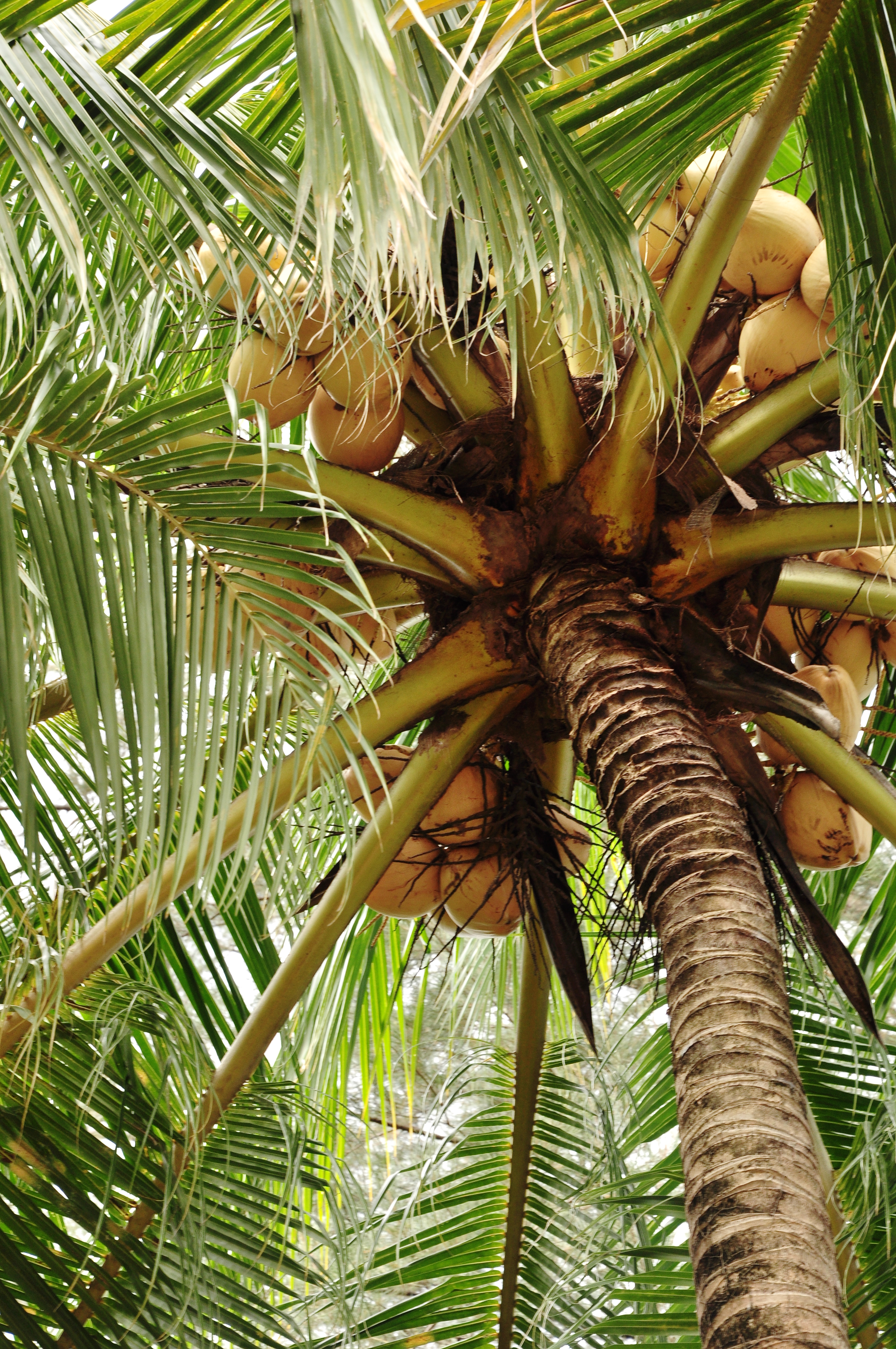 Coconuts on tree. Photo taken in Sabah, Malaysia.